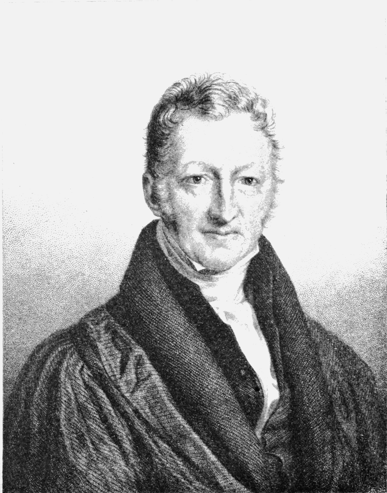 Thomas Robert Malthus